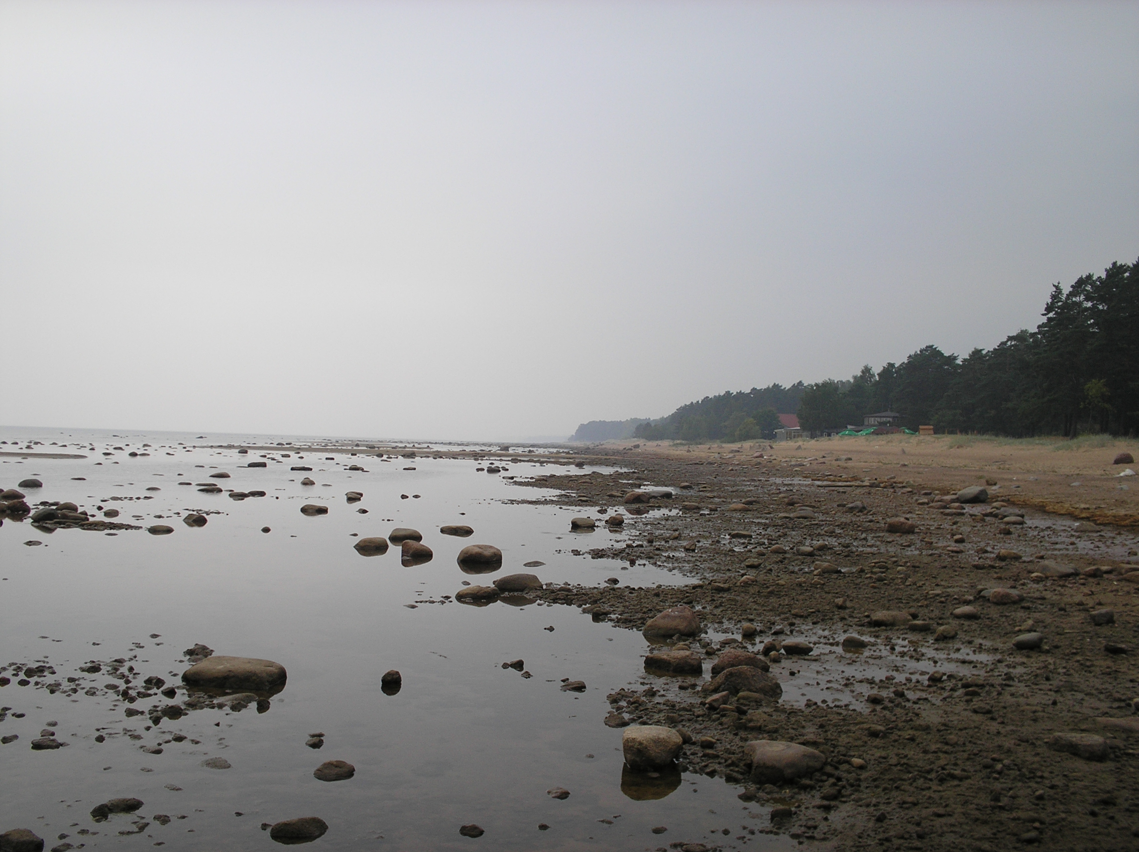 Gulf of Finland. Saint Petersburg. Komarovo